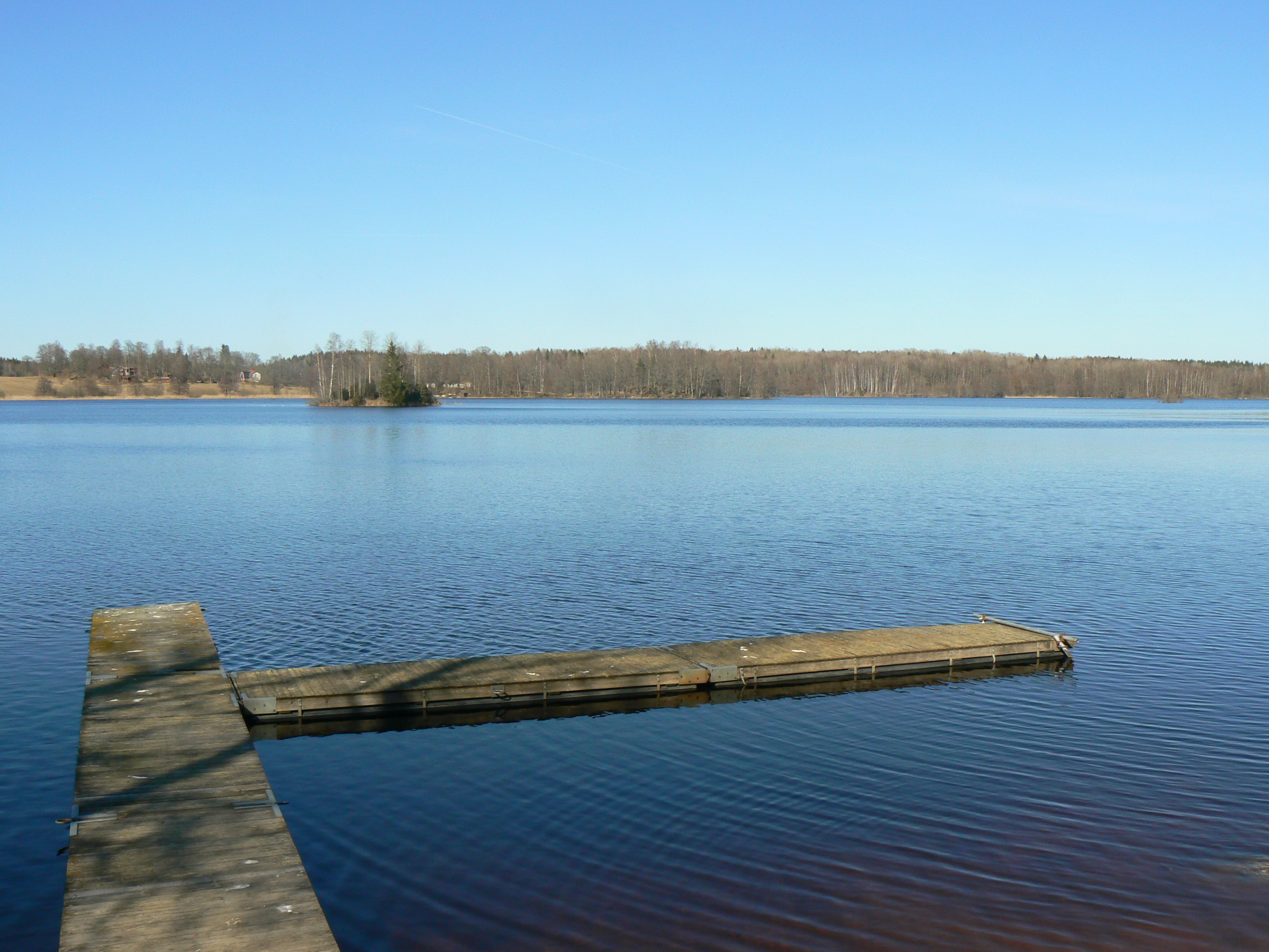 Lake Regnaren in Östergötland, Sweden.